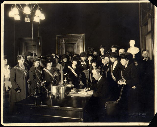 Surrounded by members of the Kentucky Equal Rights Association, Kentucky Governor Edwin P. Morrow signs the bill ratifying 19th Amendment, giving women the right to vote